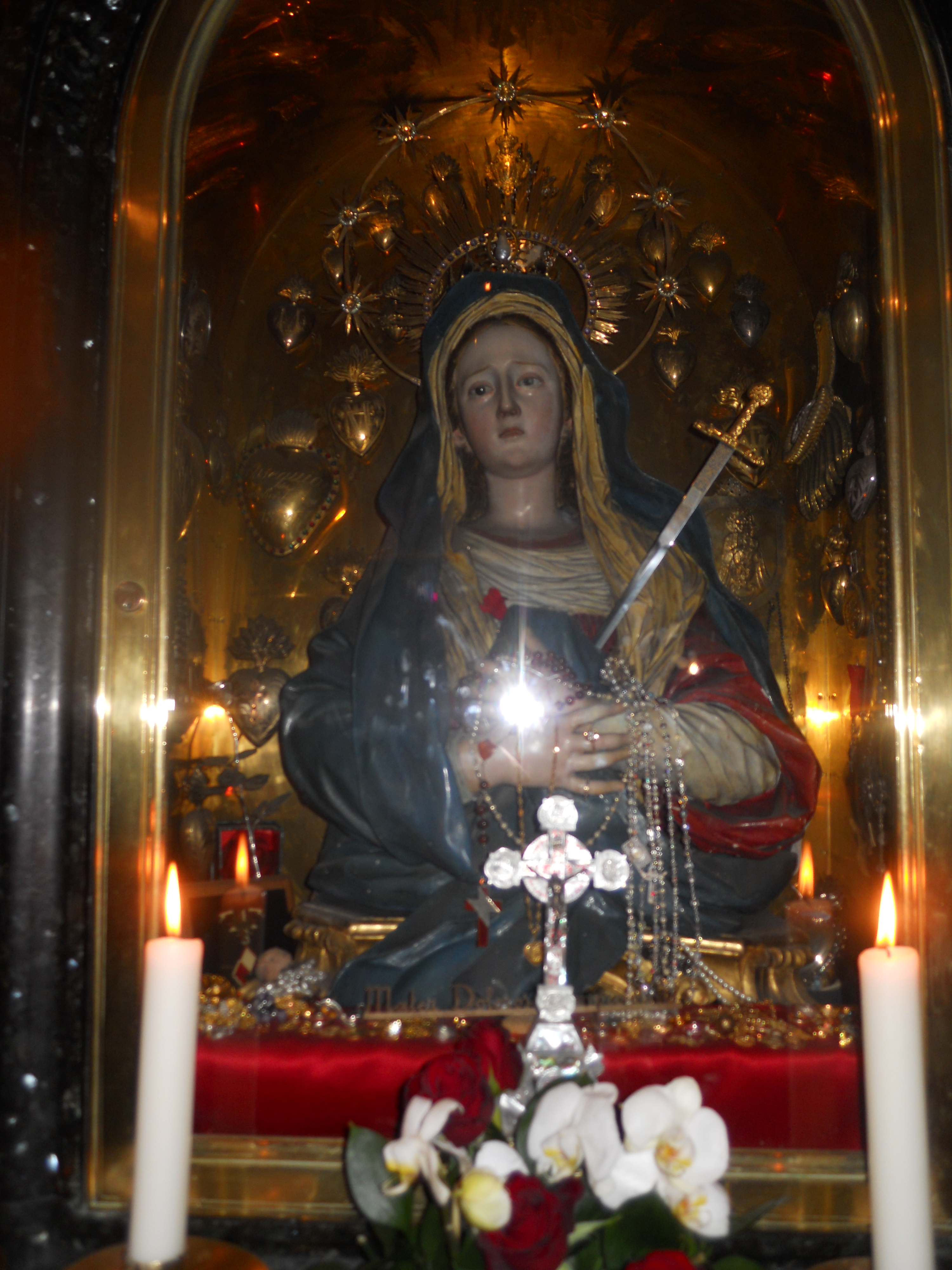 Holy Sepulchre